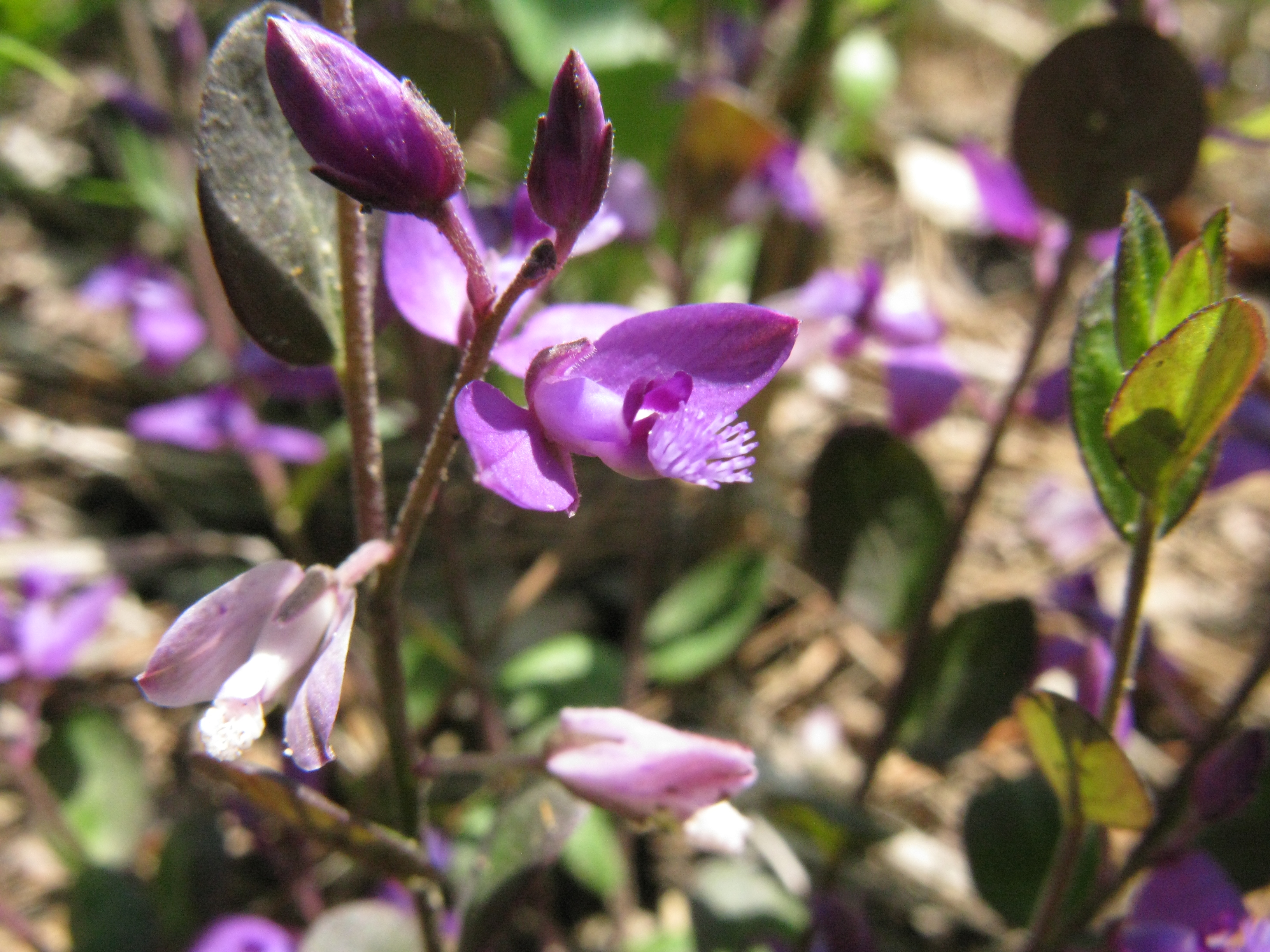 Polygala japonica, Aizu area, Fukushima pref., Japan